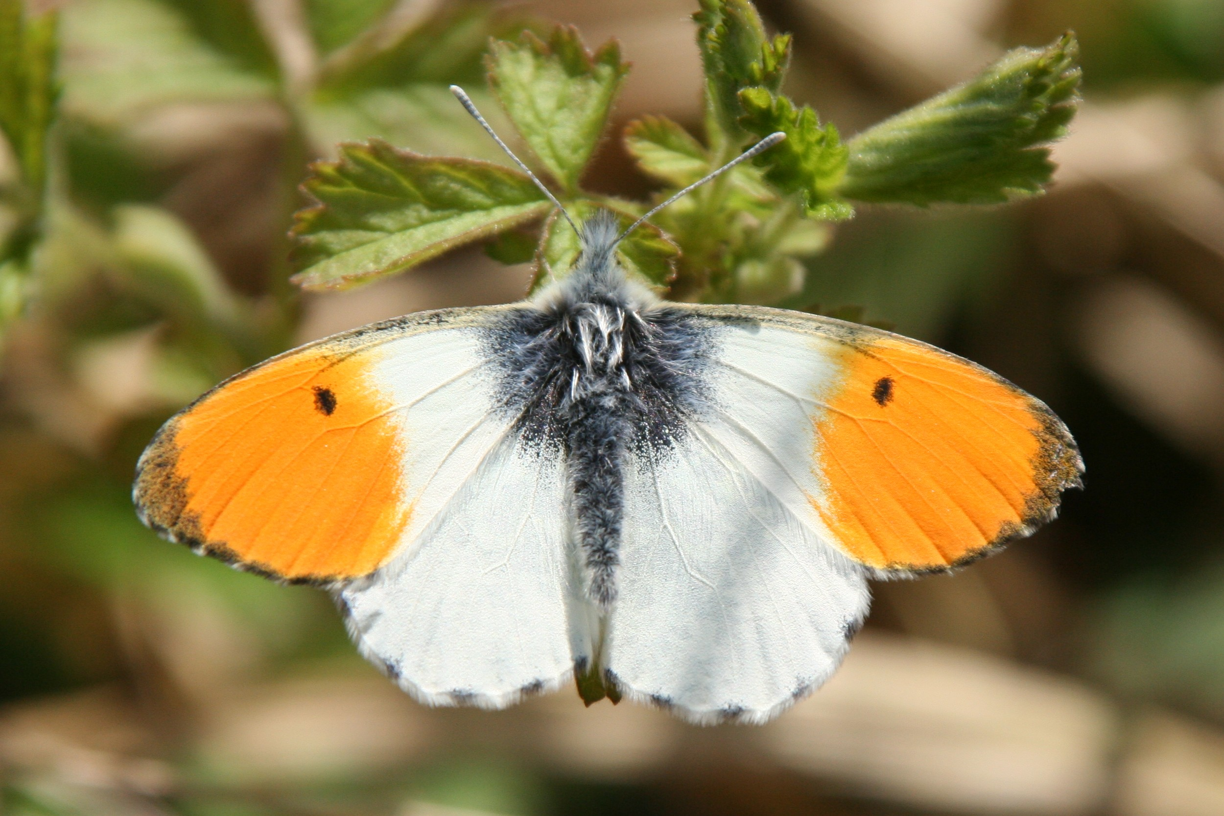 A male Orange Tip butterfly (Anthocharis cardamines), photographed in Weinsberg